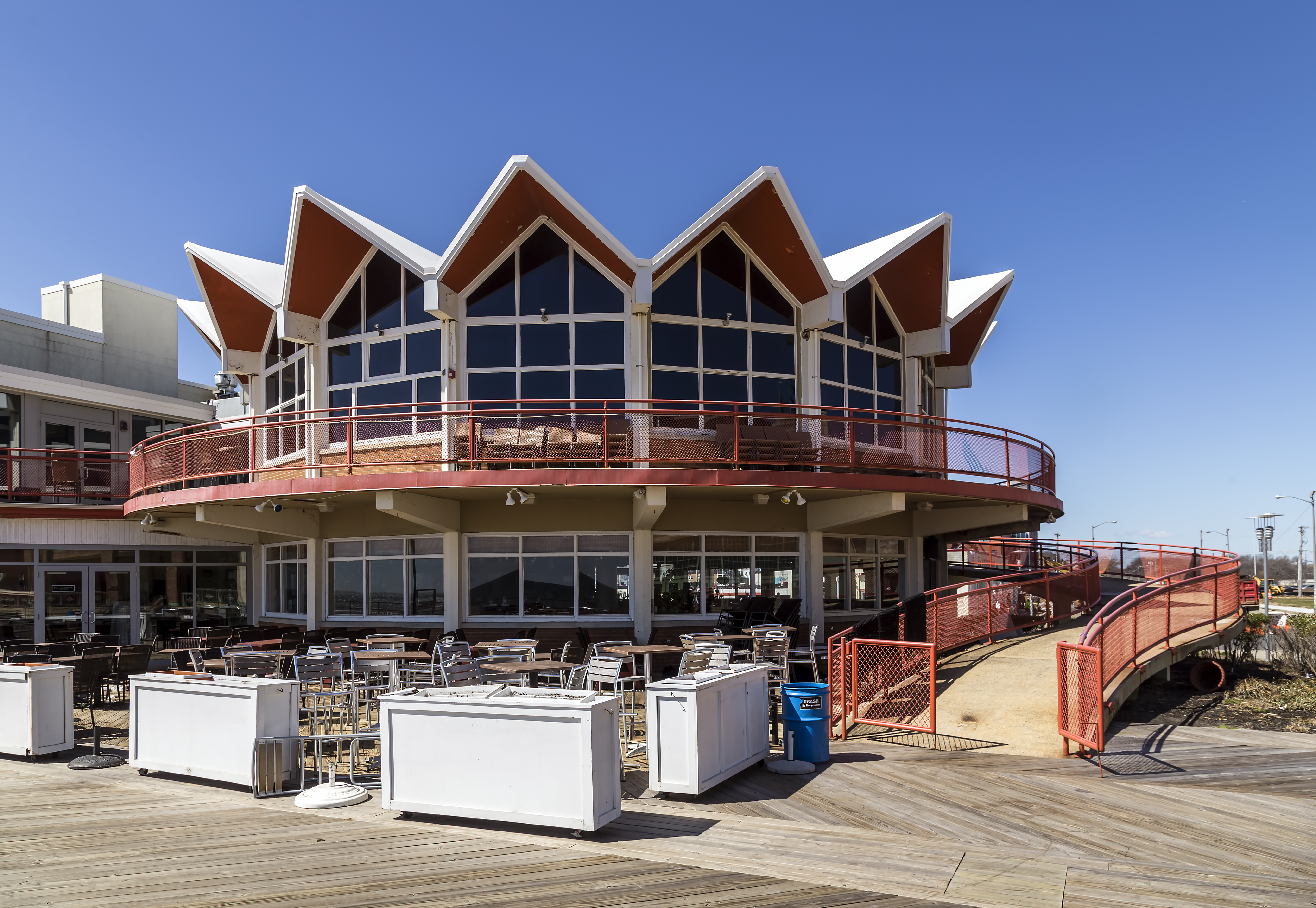 The former Howard Johnson Restaurant on the beach at Asbury Park, New Jersey, USA